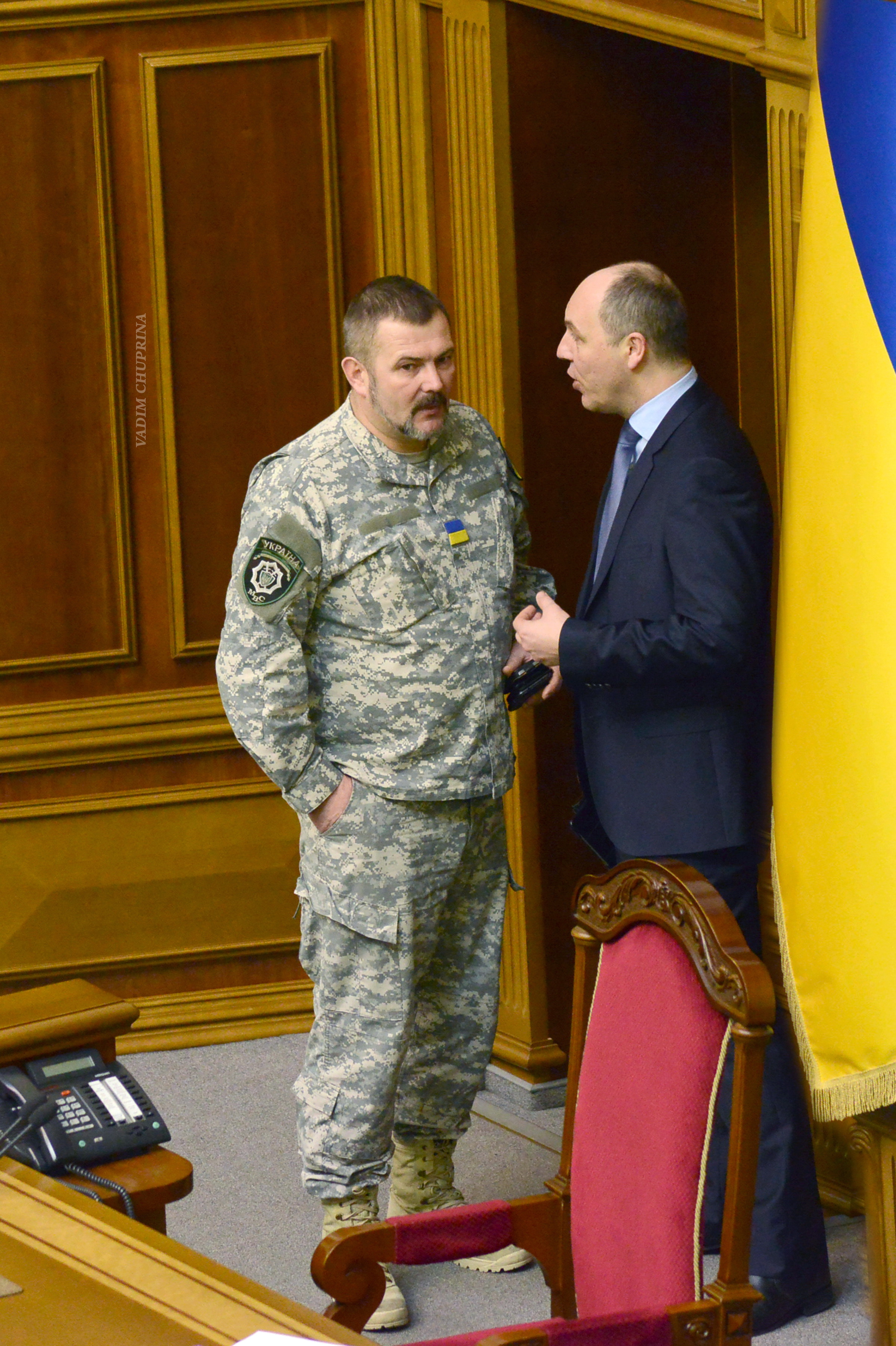 PARLIAMENT OF UKRAINE , 2015